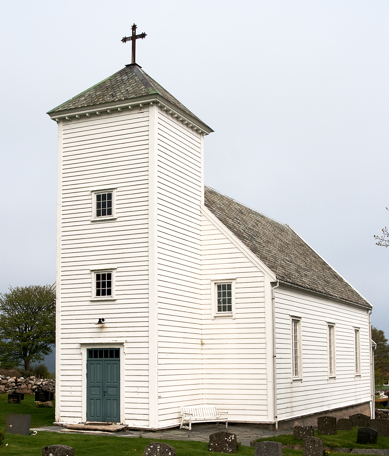 Picture of Askje kyrkje, Askje